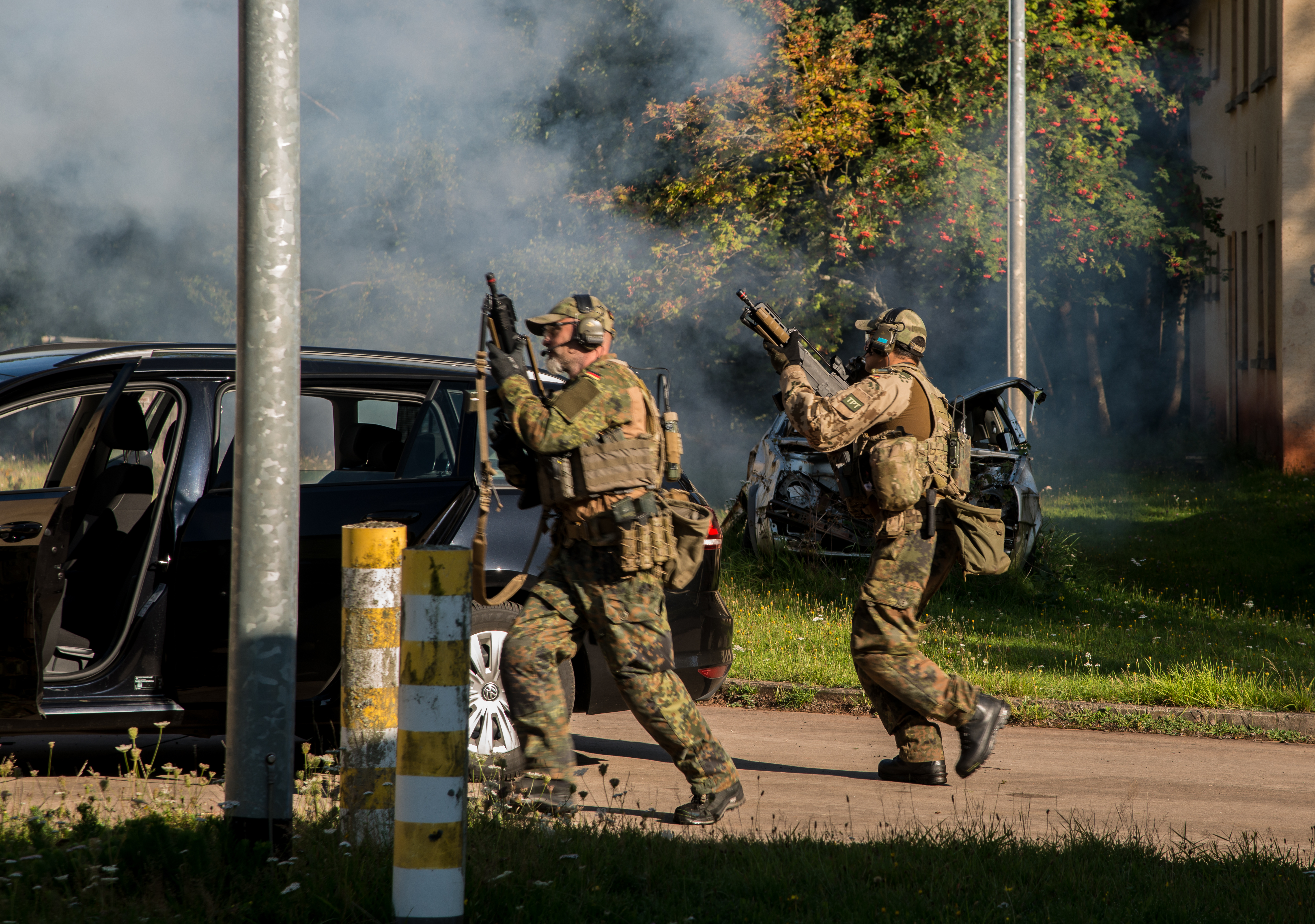 German Soldiers assigned to the Zentrum für Operative Kommunikation der Bundeswehr (Center of Operative Communication), Mayen, Germany, trained at the Urban Operations Site, Baumholder Local Training Area, Baumholder, Germany 23 August 2017. Purpose of the training was to learn and practice proper movement techniques in an urban environment and the incorporation of new weapons.